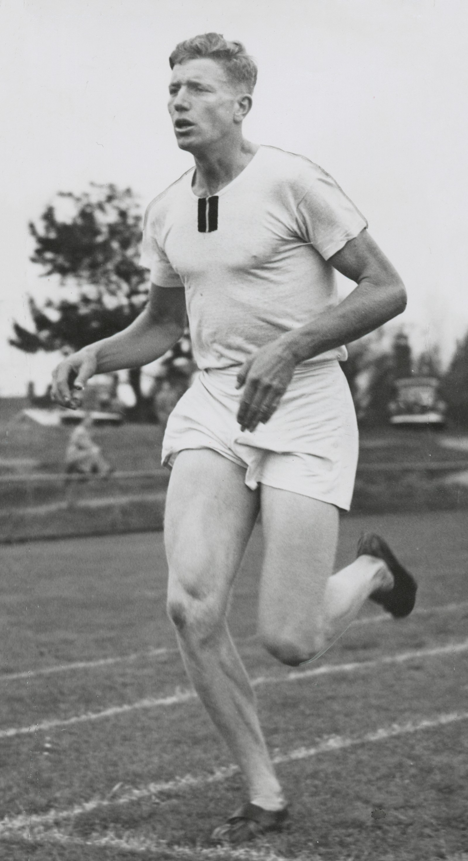 Don MacMillan winning the 1 mile championship at Melbourne University sports day, 1948.